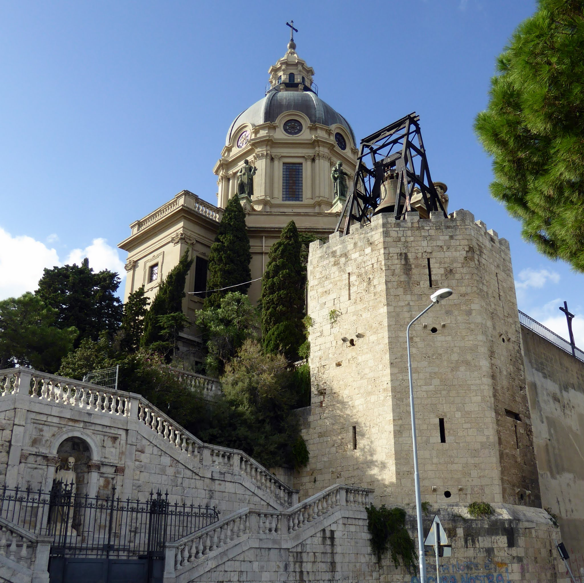 Temple Christ the King, Messina